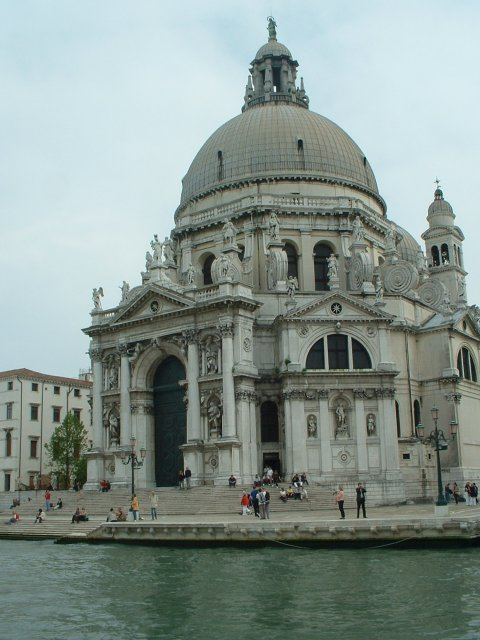 Basilica di Santa Maria della Salute, Venice, from the Grand Canal. Photo taken by Necrothesp, 13 May 2004.